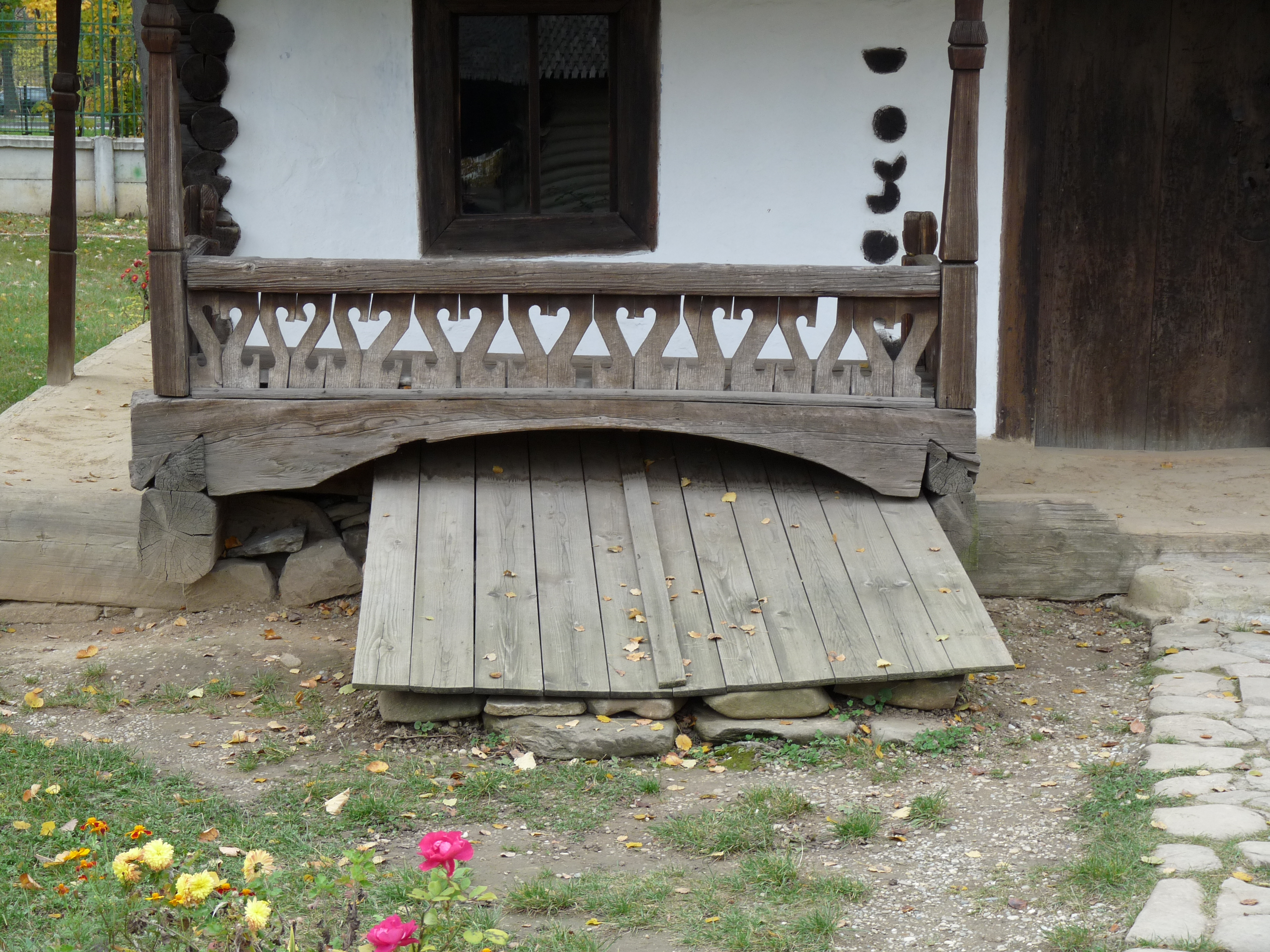 19th century household from Audia, Neamţ County, Romania, exhibited at the Village Museum in Bucharest. Cellar entrance.